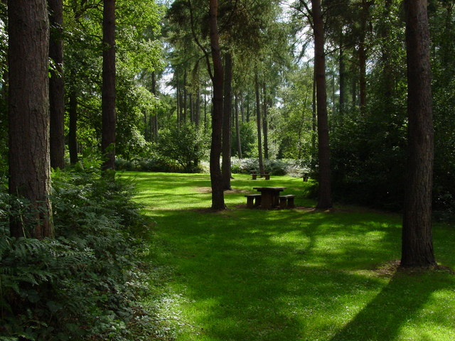 Forestry Commission Picnic Site, Wakerley Great Wood. This peaceful picnic site lies on the northern edge of Wakerley Great Wood. The picture shows benches on the western edge of the site.